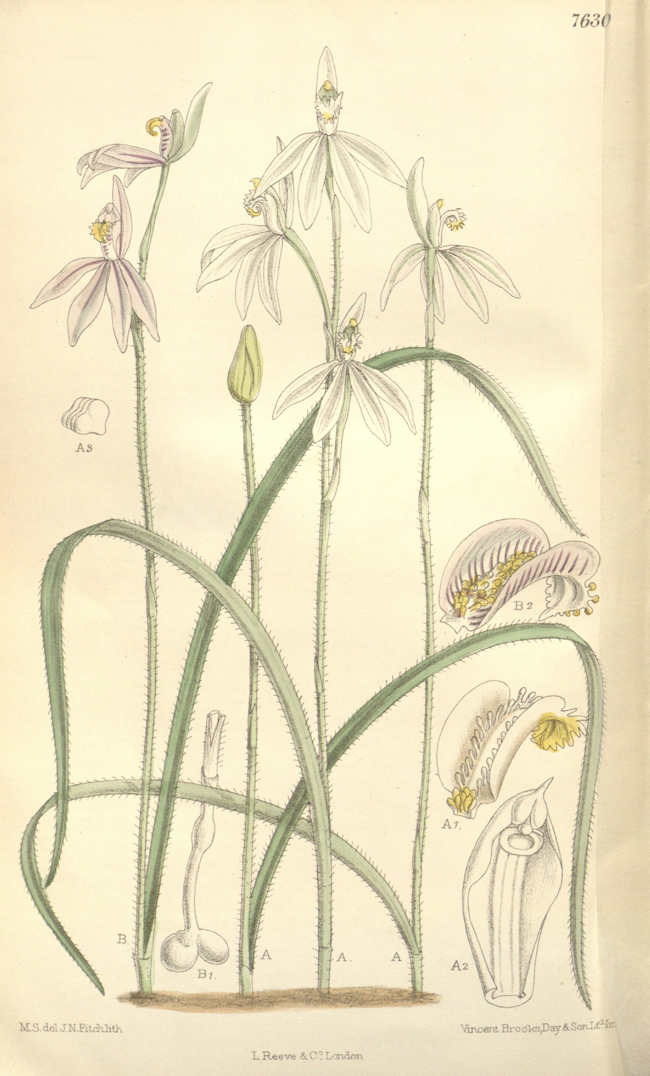 Illustration of Caladenia carnea